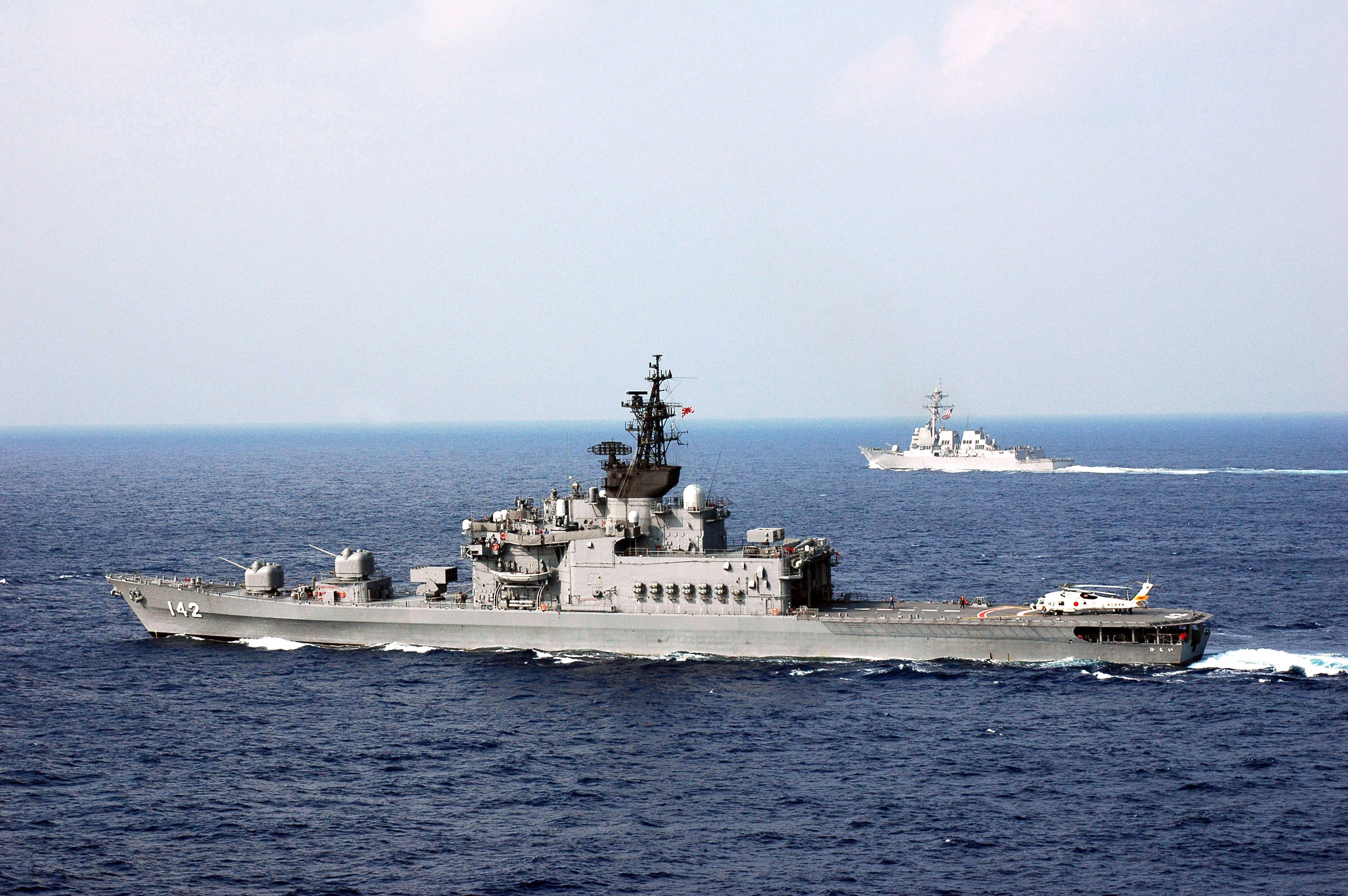 The Japanese Maritime Self Defense Force (JMSDF) Haruna Class Destroyer Hiei (DDH-142) (foreground) and the U.S. Navy Arleigh Burke Class (Flight IIA) Guided Missile Destroyer USS Mustin (DDG-89) out in the Philippine Sea on Nov. 16, 2007, at the end of exercise ANNUALEX 19G. ANNUALEX is a maritime component of the U.S.-Japanese exercise Keen Sword 08. (U.S. Navy photo by Chief Mass Communication Specialist Don Bray) (Released)